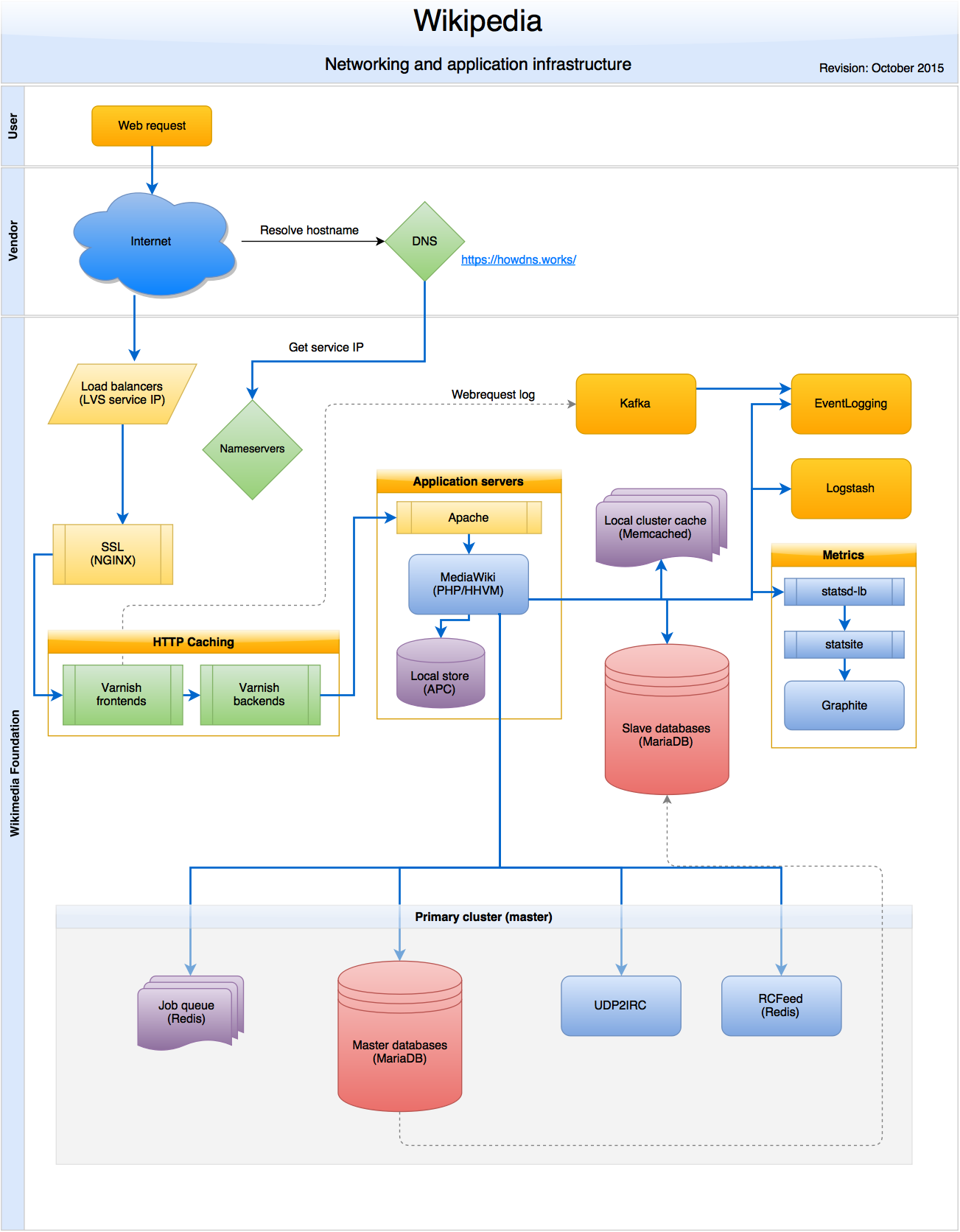 Diagram detailing the life of a Wikipedia webrequest inside Wikimedia Foundation infrastructure as of October 2015.